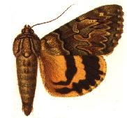 PLATE CXCV.